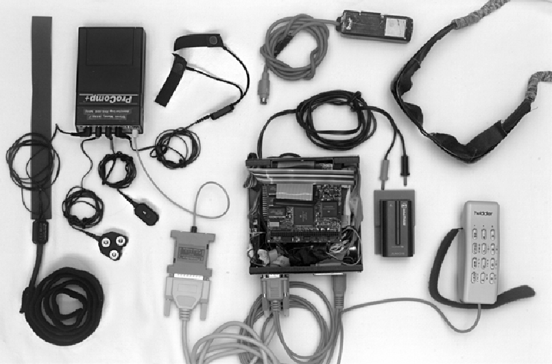 Quantimetric Self-Sensing apparatus (body sensing apparatus with Digital Eye Glass for display of body sensing apparatus output, etc.).